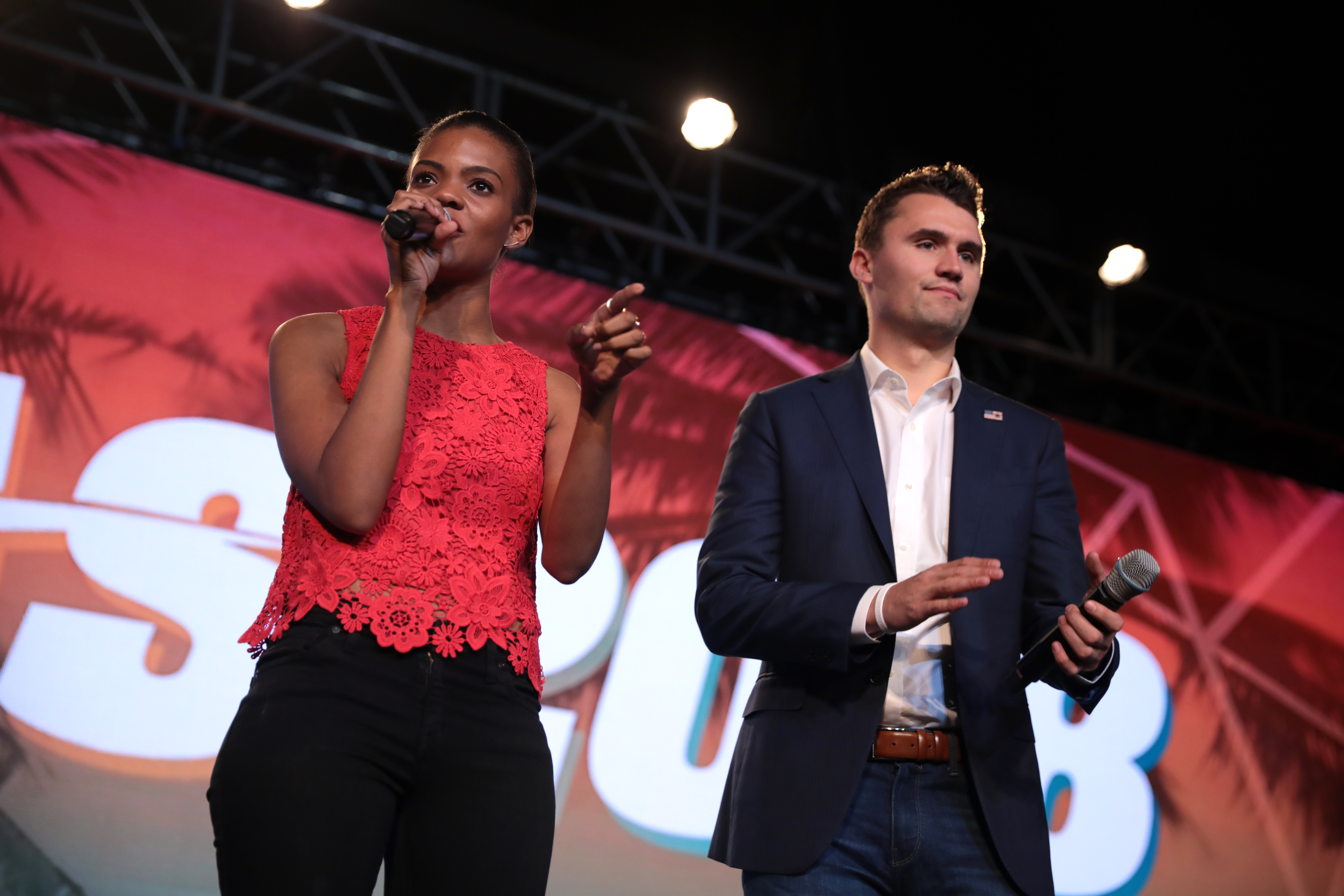 Candace Owens and Charlie Kirk speaking with attendees at the 2018 Student Action Summit hosted by Turning Point USA at the Palm Beach County Convention Center in West Palm Beach, Florida.